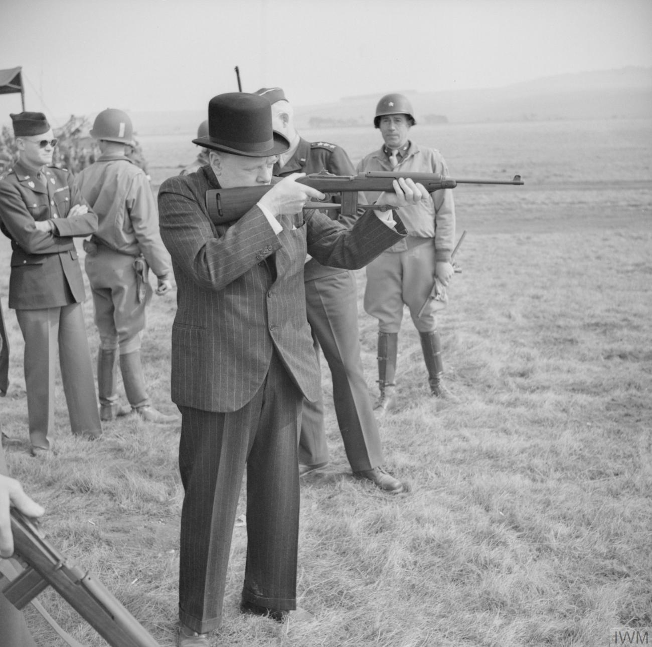 The British Army in the United Kingdom 1939-45 Winston Churchill fires an American .30 carbine during a visit to the US 2nd Armored Division on Salisbury Plain, 23 March 1944.